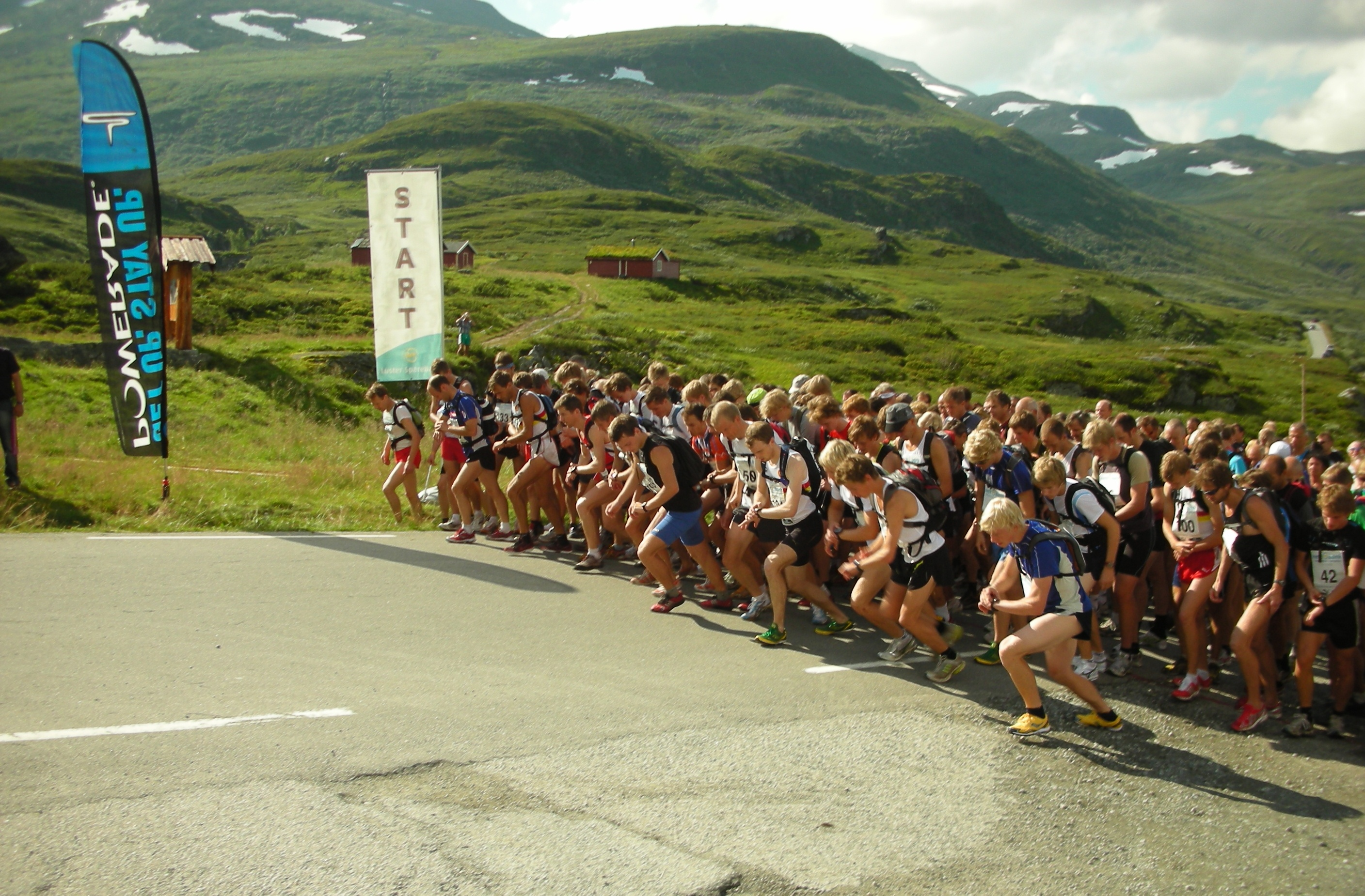 The start of the mountain running competition Turtagrø-Fannaråken Opp. Norwegian championship in mountain running. Picture is taken near the hotel Turtagrø, Luster, Norway.